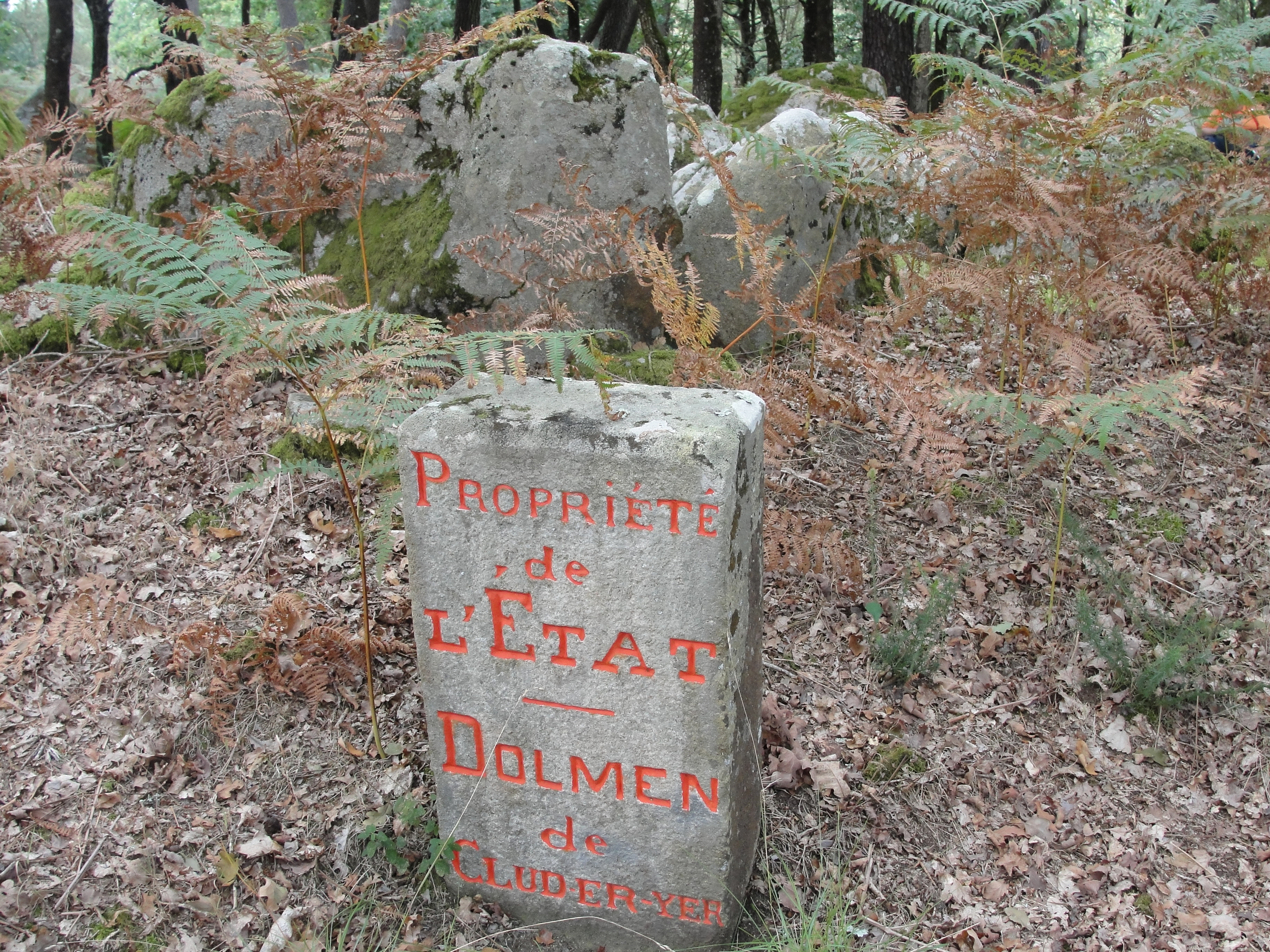 State ownership sign of Dolmen Clud-er-Yer in Morbihan, Brittany,France